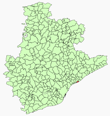 Premiá de Mar